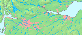 blank map of Scotland with build up areas